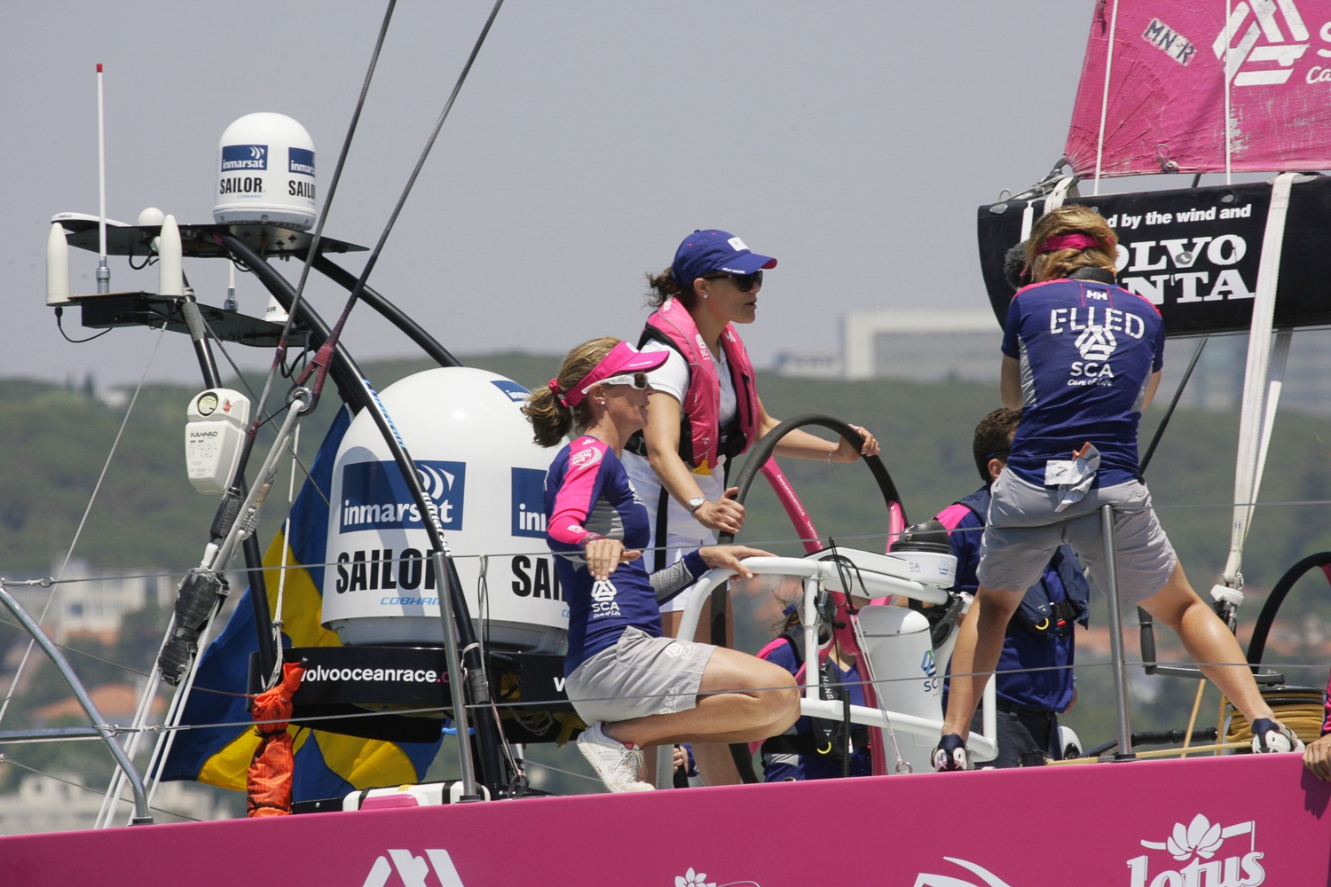 June 05, 2015. Crown Princess Victoria of Sweden onboard Team SCA for ProAm 2 in Lisbon.